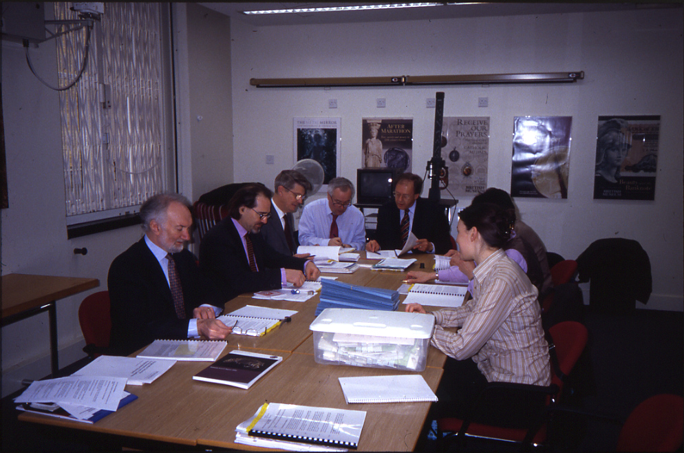 Treasure Valuation Committee at work This was added from the site called under the name portableantiquities. See source for details.